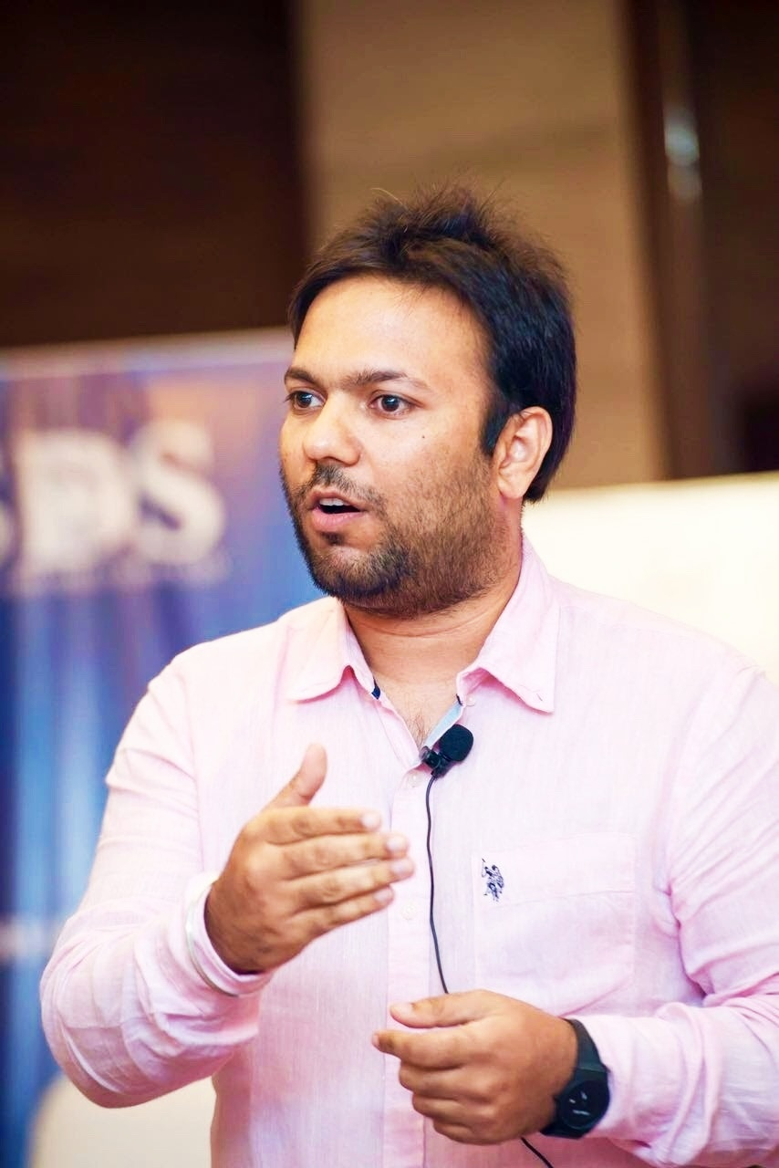 Manu Singh addressing an event in 2016 on interfaith hosted by Sarva Dharma Samvaad. the event was at The Umrao in Delhi regarding Social Media Training.